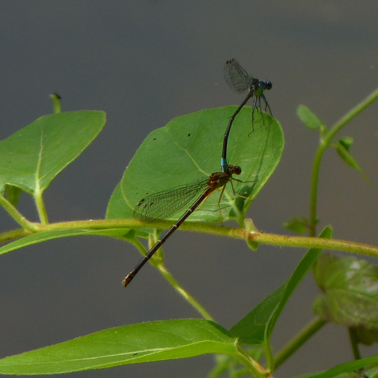 Blue-fronted Dancers mating